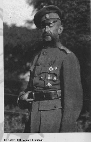 Yelchaninov, Gregory Ivanovich